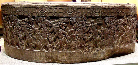 The Stone of Tizoc.